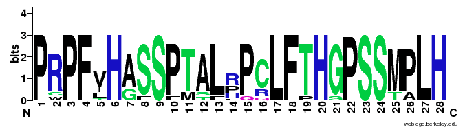 The tandemly repeated sequences of Proline-Rich Protein 21 that are repeated 11 times.